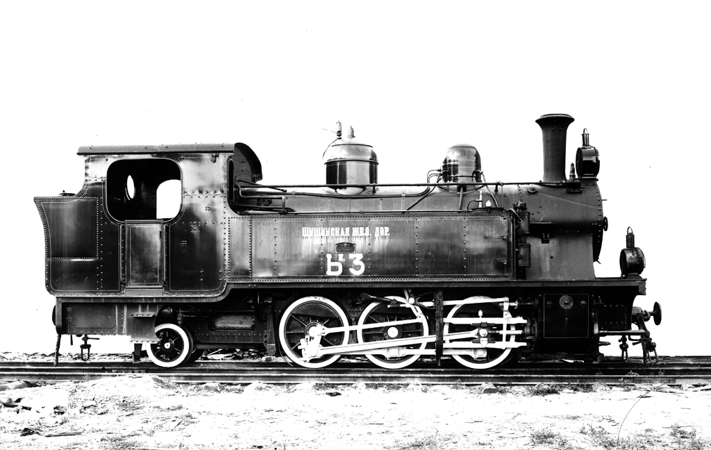 Type 141 steam tank locomotive for Shusha railroad (900 mm gauge)